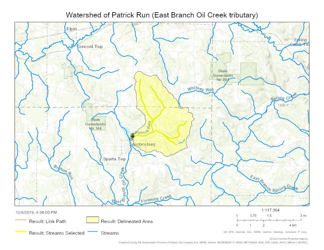 Map of the watershed of Patrick Run (East Branch Oil Creek tributary) in Crawford and Erie Counties, Pennsylvania